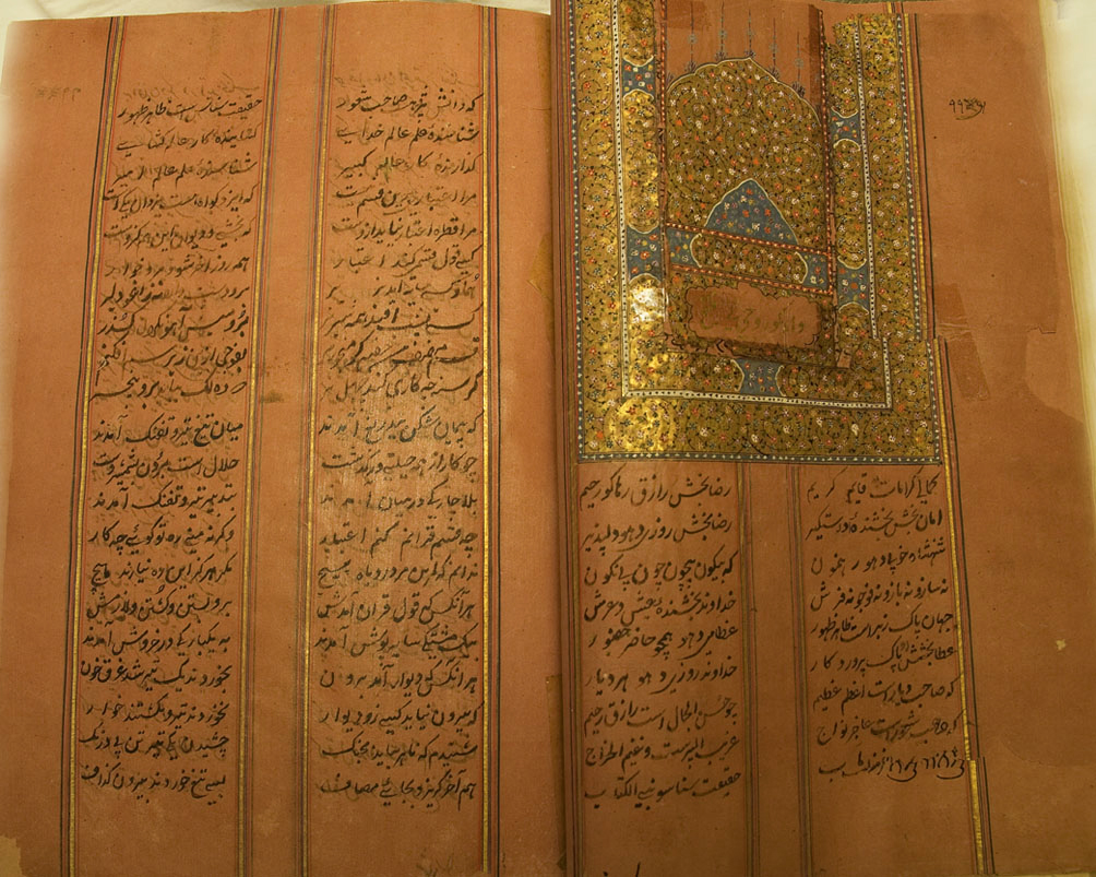 Zafarnama is a Persian term that means “Declaration of Victory”. Zafarnama was the name of the second letter of Guru Gobind Singh to Emperor Aurungzeb in 1705. It is not known if this is the original or not.